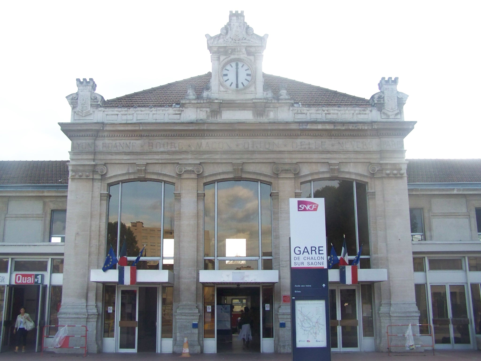 Front of Chalon sur Saône train station in Saône-et-Loire, France.